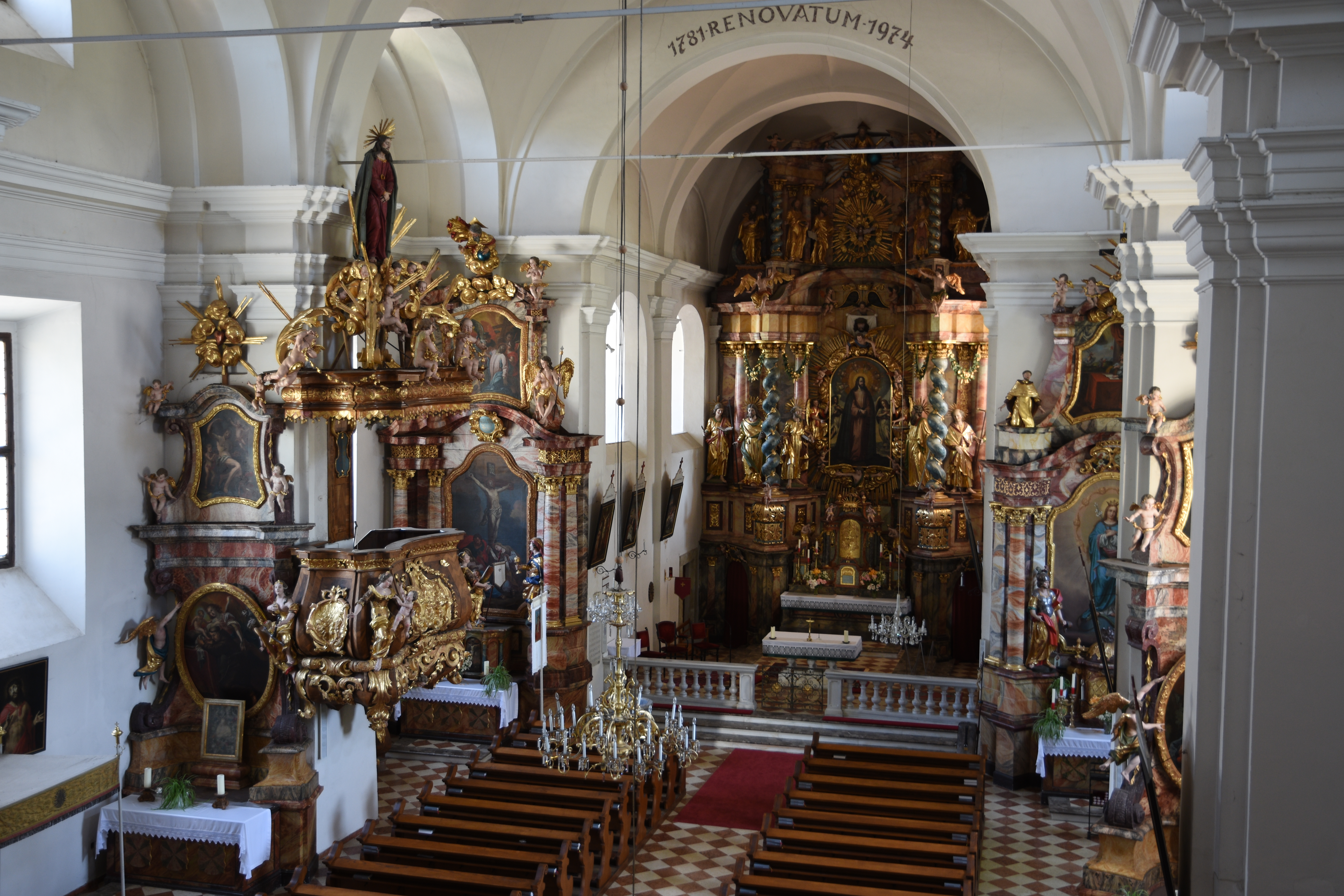 Salvator Church Breitenfeld